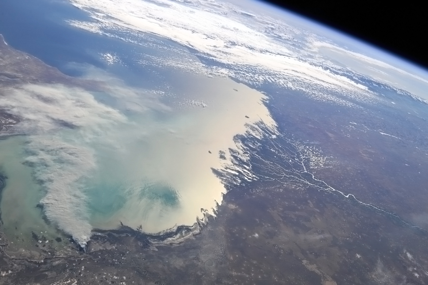 Astronauts on the International Space Station took in this view of the north coast of the Caspian Sea and two river deltas in Kazakhstan and Russia on September 11, 2010. The larger delta (image middle) is that of the Volga River, which appears prominently in sunglint—light reflected off a water surface back towards the observer—and the smaller, less prominent delta is the Ural River (lower left). The smoke plume appears to rise out of coastal marsh vegetation in the Ural River delta, rather than a city or oil storage facility. Although even small fires produce plumes that are long, bright, and easily visible from space, the density of the smoke in this plume—which stretches 350 kilometers (217 miles)—suggests it was a significant fire. The smoke was thick enough near the source to cast shadows on the Caspian Sea surface below. Lines mark three separate pulses of smoke: the most recent, nearest the source, extends directly south from the coastline. With time, plumes become progressively more diffuse. The oldest pulse appears thinnest, casting no obvious shadows. Wide-angle, oblique views such as this—taken looking outward at an angle, rather than straight down towards the Earth—give an excellent impression of how ISS astronauts view the Earth. For a sense of scale, the Caucasus Mountains, across the Caspian, are approximately 1,100 kilometers (680 miles) to the southwest of the space station’s nadir point—the location on Earth directly underneath the spacecraft—at the time this image was taken.